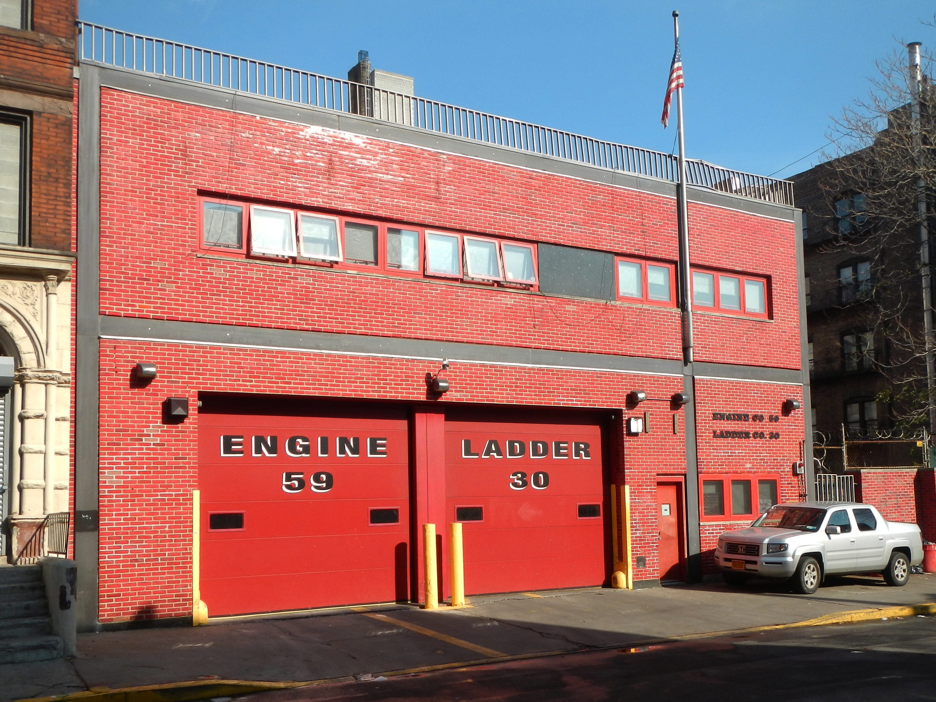 Looking northeast at Engine 59 Ladder 30 firehouse on a sunny midday. EXIF location is incorrect due to photographer's error.